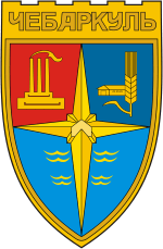 Chebarkul (Chelyabinsk oblast), coat of arms (1974)